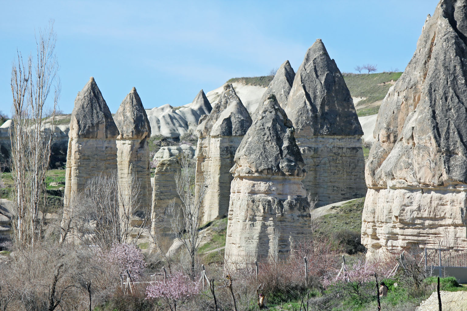 Love Valley (Göreme), fairy chimneys